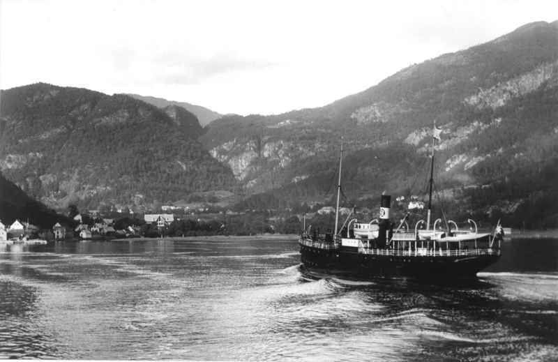 SS Vikingen (1900) from 1911. Near Eide, Møre og Romsdal.